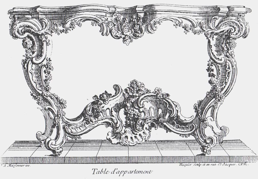 Juste-Aurele Meissonnier engraved design for a side table, c 1730, engraving.